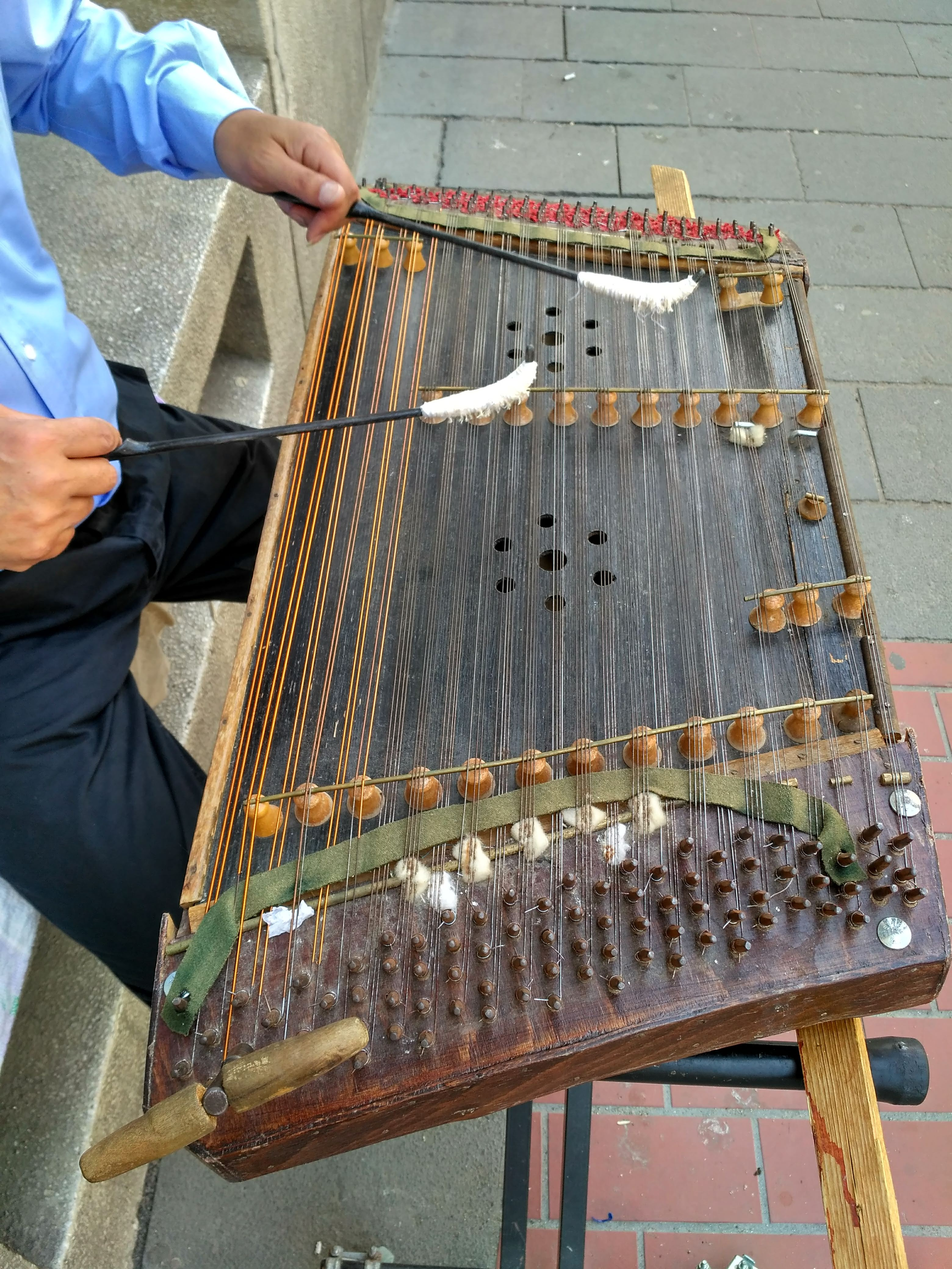 Romanian țambal in Bucharest, Romania